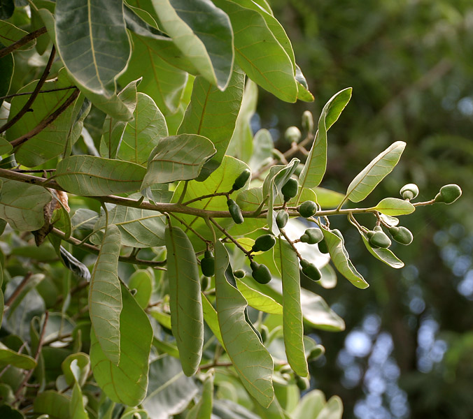 Semecarpus anacardium (Syn. A. orientale)- Marking Nut, dhobi nut tree, Indian marking nut tree, Malacca bean, marany nut, marsh nut, oriental cashew nut, varnish tree • Hindi: भिलावां or भिलावन bhilawan, बिल्लार billar • Marathi: भल्लातक bhallataka, भिल्लावा bhillava, बिब्बा bibba • Tamil: சேங்கொட்டை cen-kottai, சோம்பலம் compalam, காலகம் kalakam, காவகா kavaka, கிட்டாக்கனிக்கொட்டை kitta-k-kani-k-kottai • Malayalam: അലക്കുചേര് alakuceer, ചേന്‍ക്കുരു ceenkkuru, തേങ്കൊട്ട theenkotta • Telugu: భల్లాతము bhallatamu, జీడిమామిడిచెట్టు jidimamidichettu • Kannada: ಗೇರ geru, ಗೇರಣ್ಣಿನ ಮರ gerannina mara • Bengali: ভল্লাত bhallata, ভল্লাতক bhallataka • Oriya: bhollataki, bonebhalia • Konkani: अंबेरी amberi, बिब्बा bibba • Urdu: baladur, بهلاون bhilavan, بلار billar • Assamese: ভলা bhala • Gujarati: ભિલામો bhilamo, ભિલામું bhilamu • Sanskrit: अह्वला ahvala, अर्शस्तः arshastah, अरुध्कः arudhkh, भल्लातकः bhallatakah, वह्निः vahnih, विषास्या vishasya • Nepali: भलायो bhalaayo- in Narsapur, Medak district, Andhra Pradesh, India.